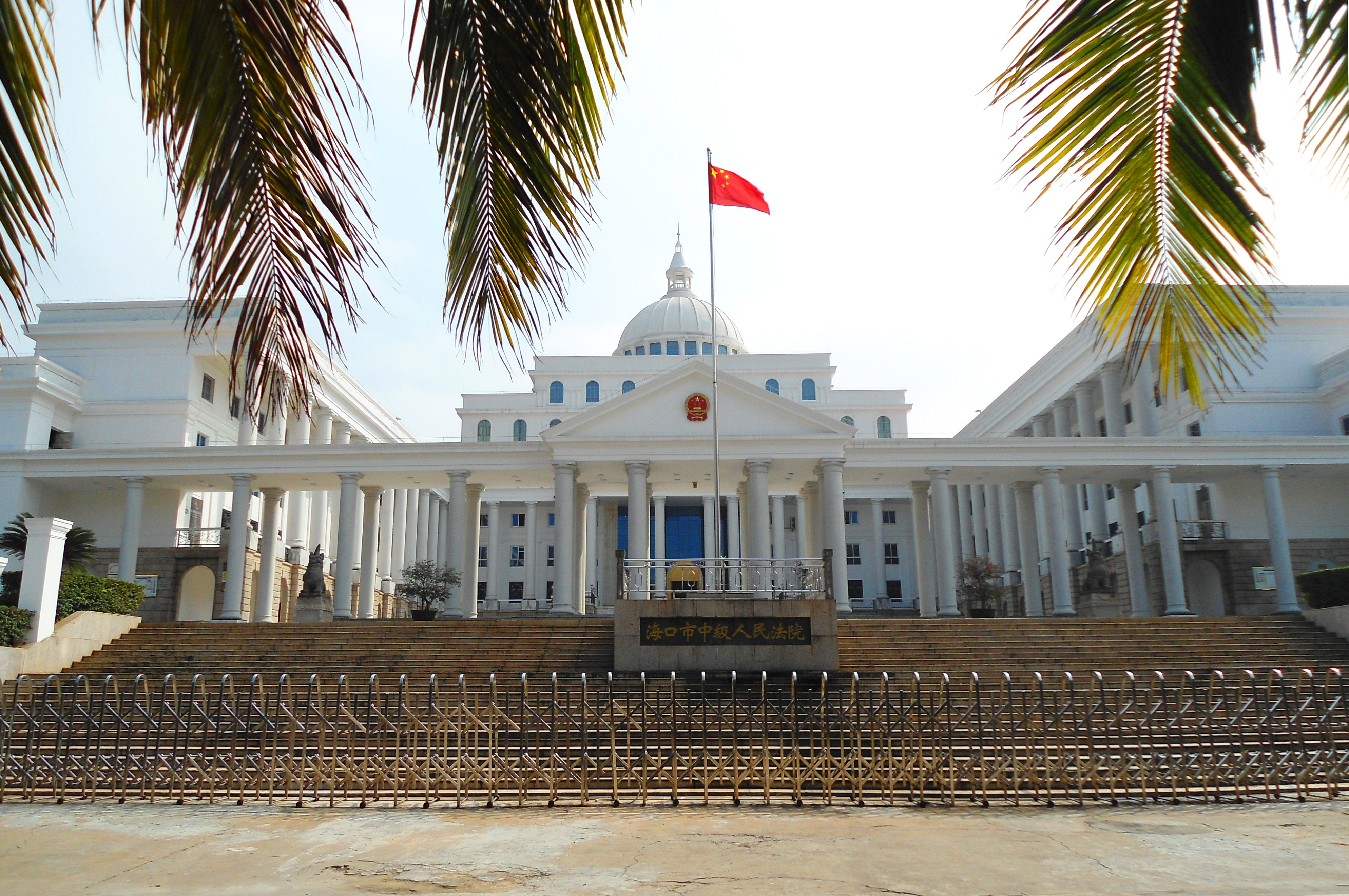 Haikou Intermediate People's Court in Haikou, Hainan Province, People's Republic of China